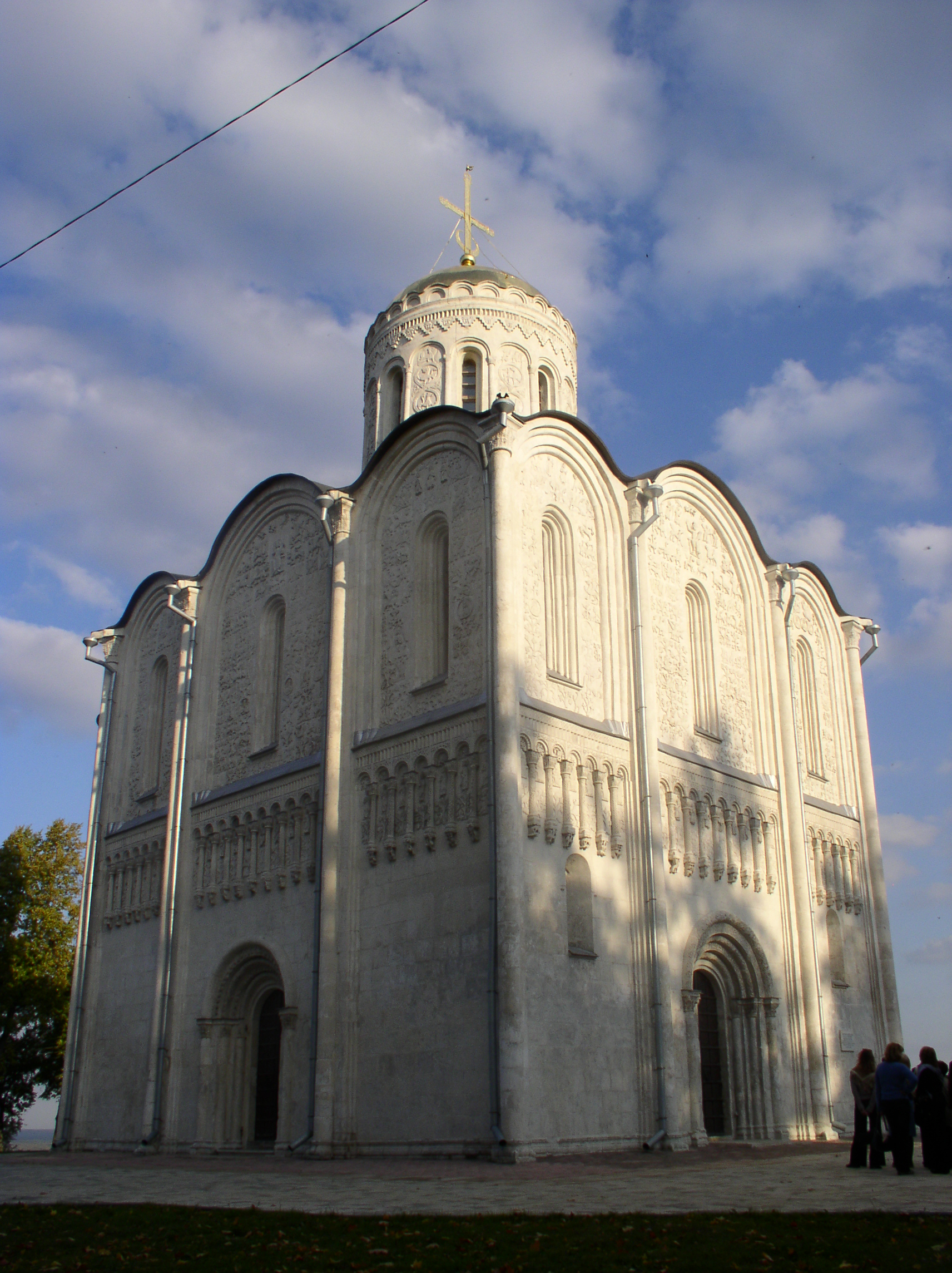 Cathedral of Saint Demetrius. Vladimir, Russia.